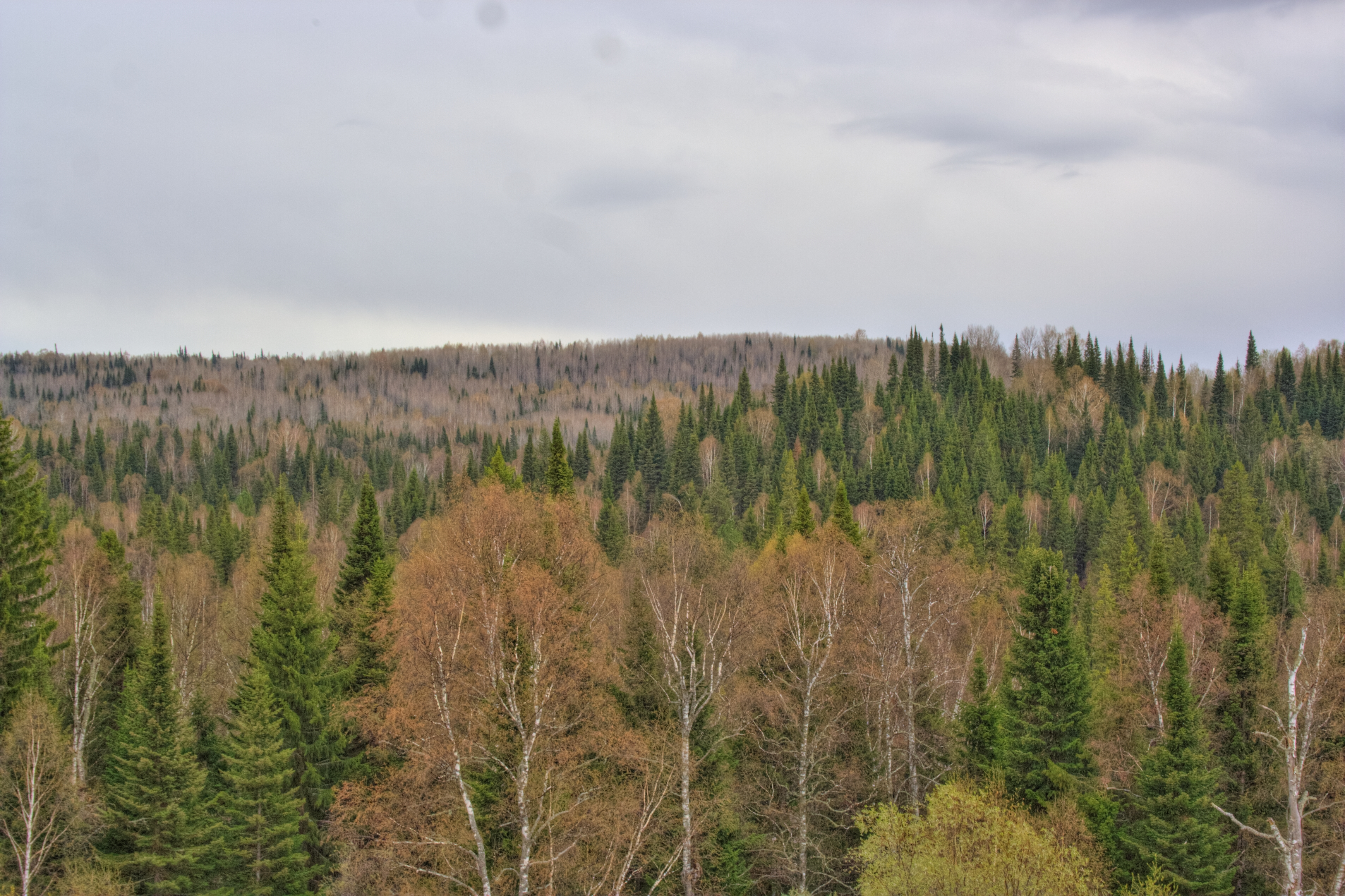 Taiga in Zalesovskiy raion of Altai region